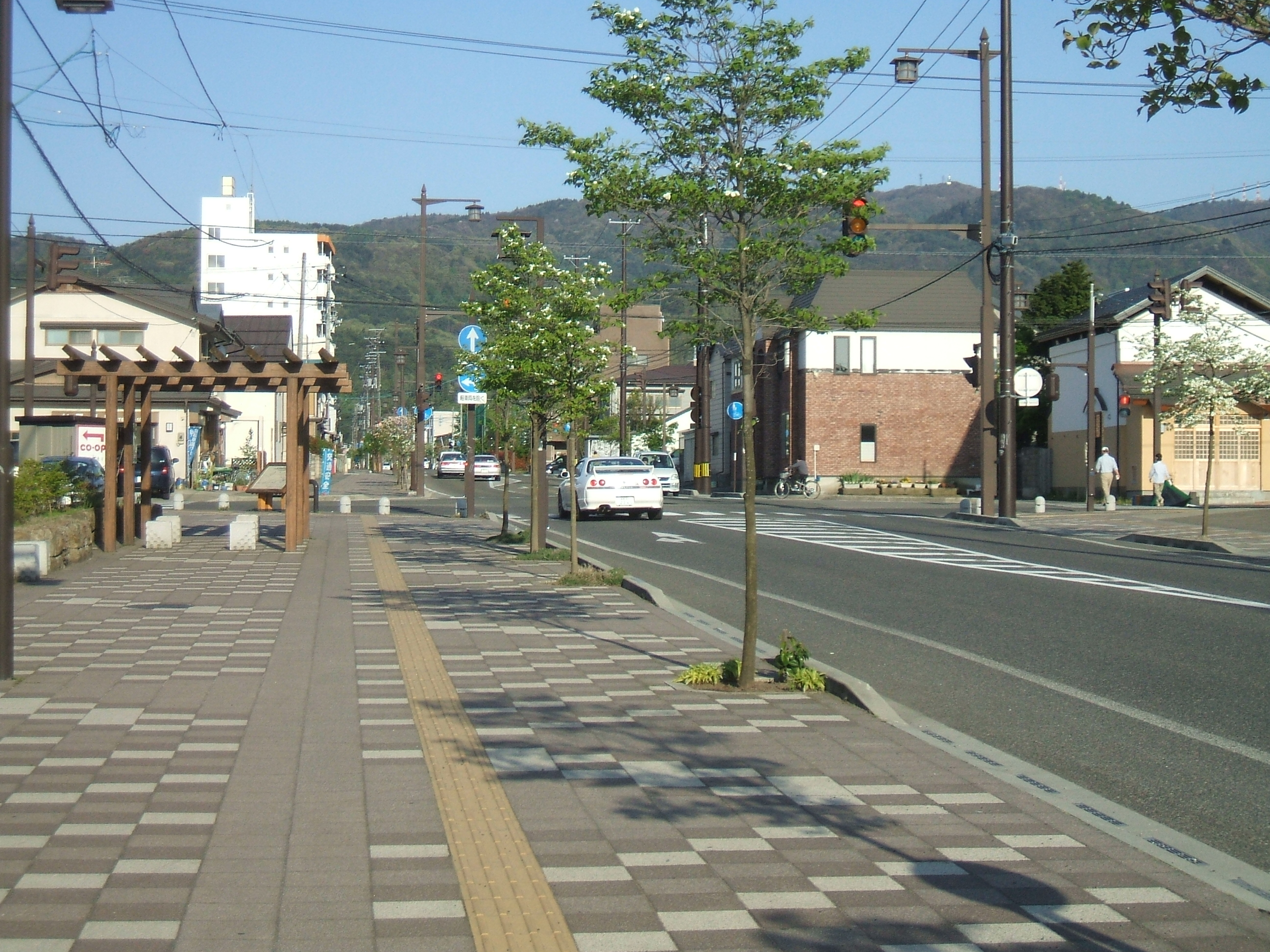 This is landscape of Gonomachi-Dori Street at Aizuwakamatsu, Fukushima.